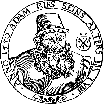 1550 Woodcut of 58-year-old Adam Ries, inscription: ANNO 1550 ADAM RIES SEINS ALTERS IM LVIII